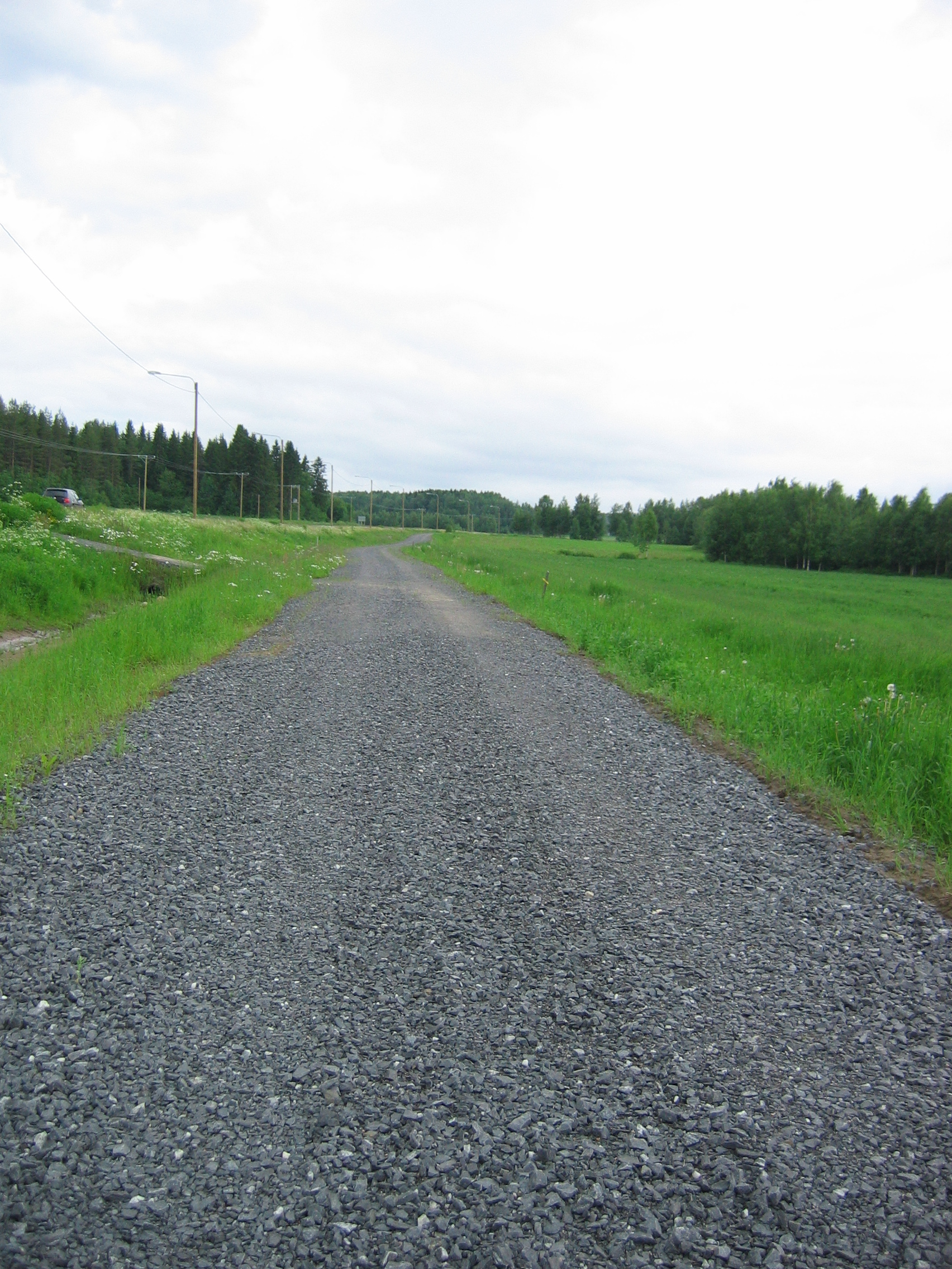 The bicycle path between Muhos and Pikkarala in Finland, under construction in Summer 2008